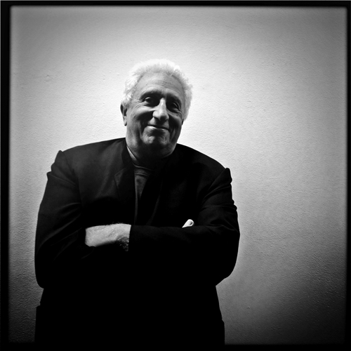 Massimo Vitali, italian photographer in september 2013